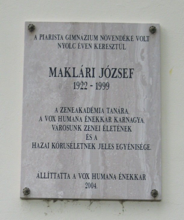 József Maklári commemorative plaque in Vác. Konstantin Square No 4.